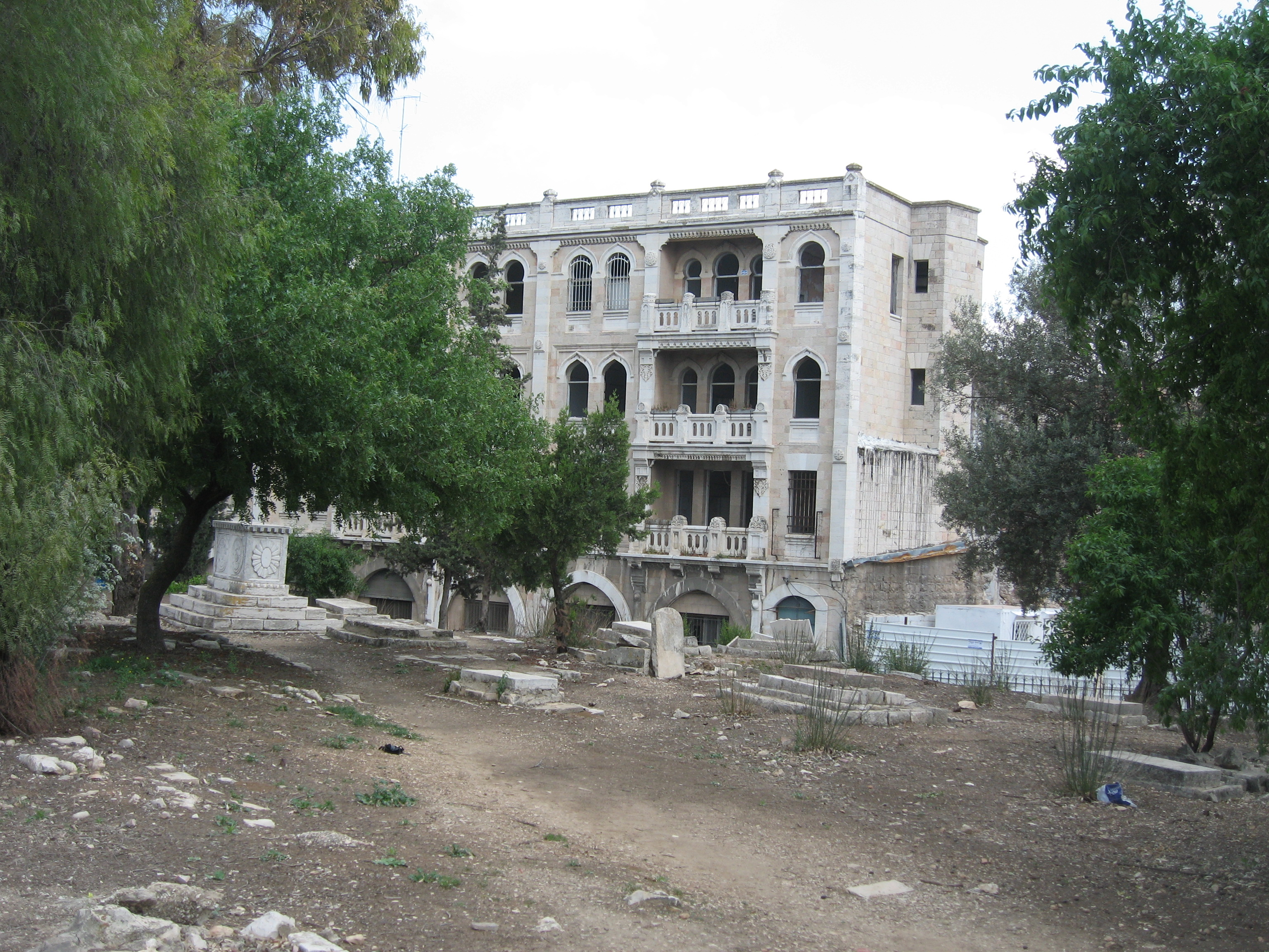 Jerusalem, Palace Hotel (view from Mamilla Cemetery) Jerusalem